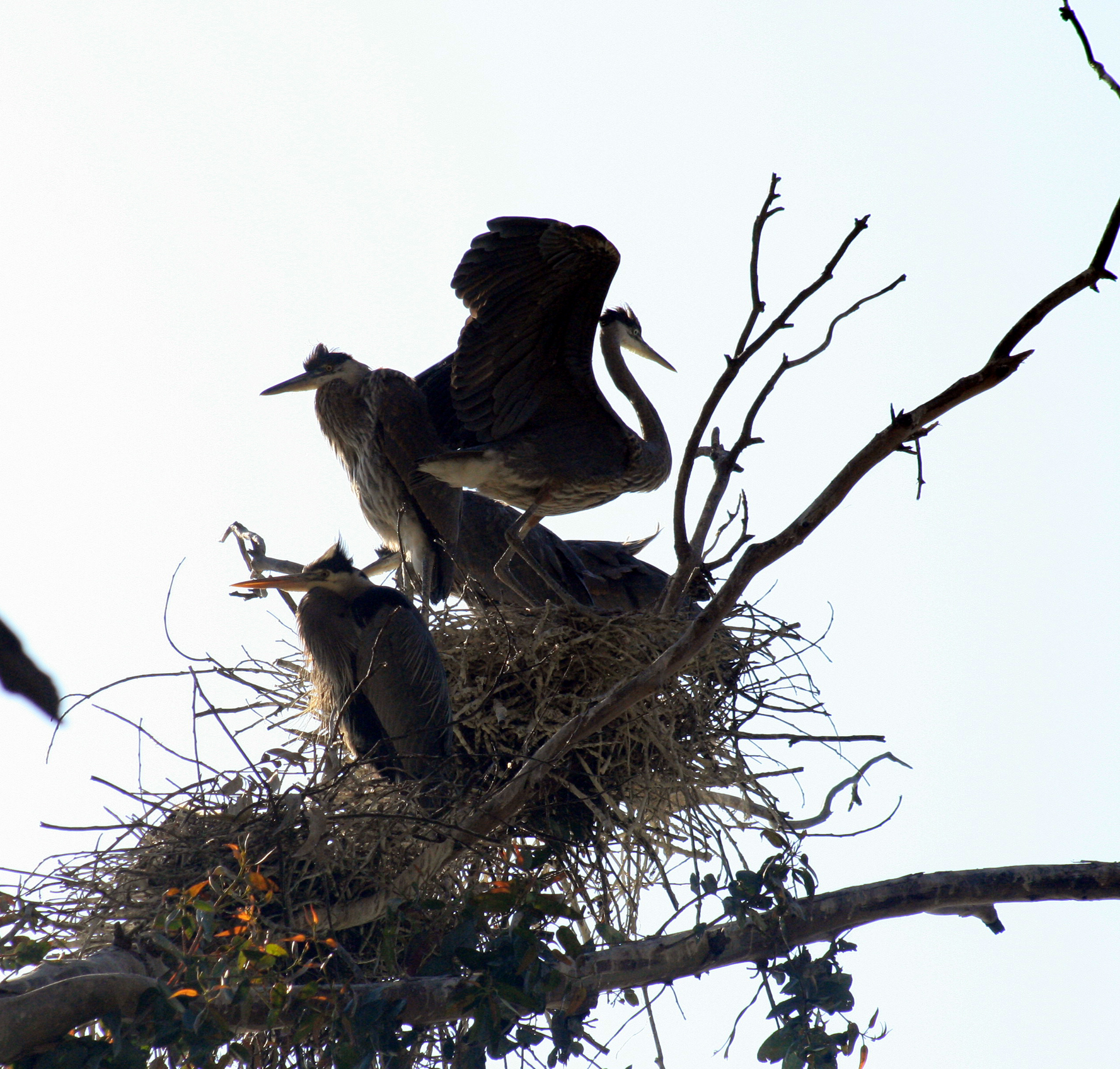 Great Blue Heron (Ardea herodias) Chicks with Parents in Nest, San Francisco, California